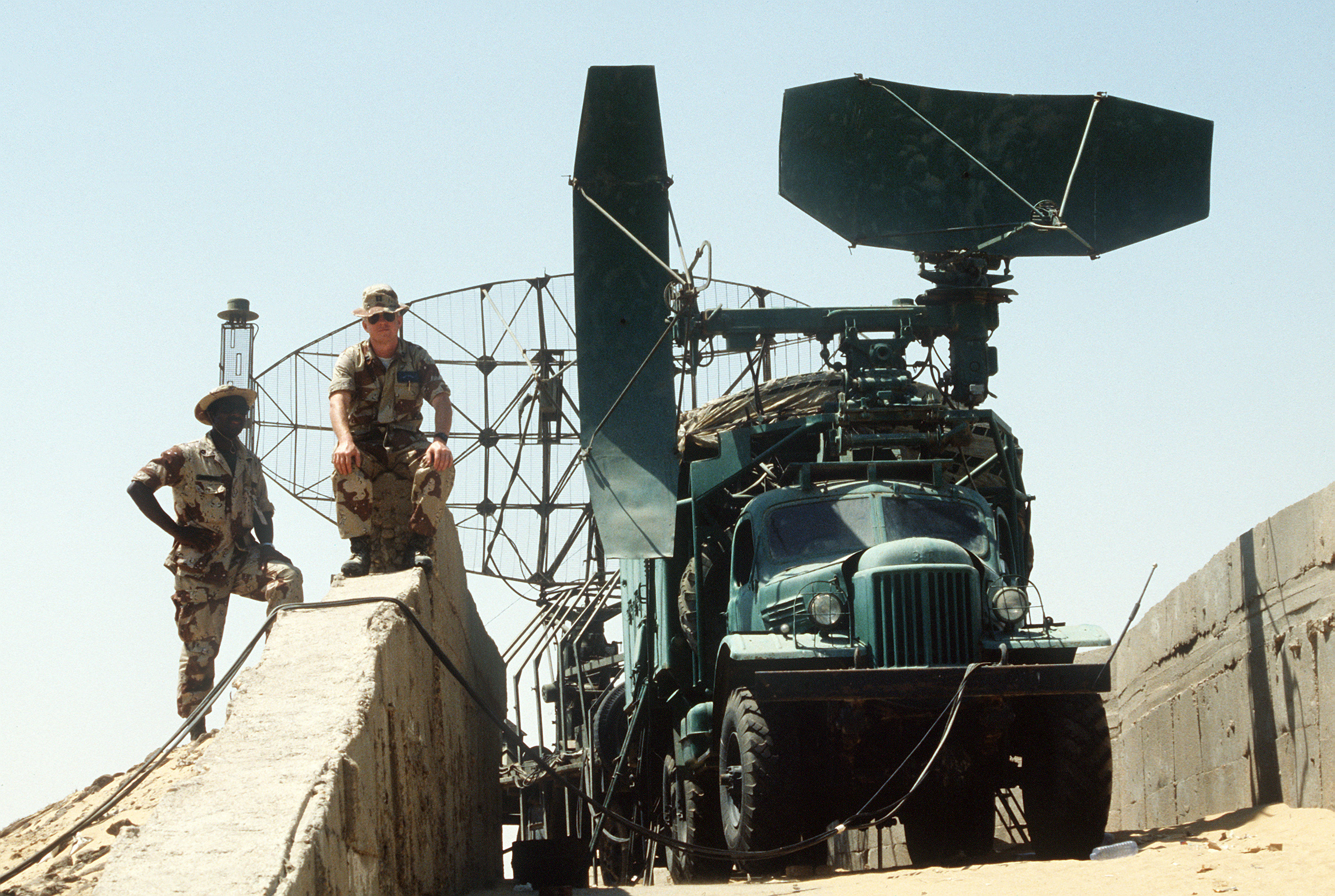 A Soviet-made RSP-7 "Two Spot" PAR radar group and Zil-157 6×6 truck are deployed during the multinational joint service Exercise Bright Star '85.